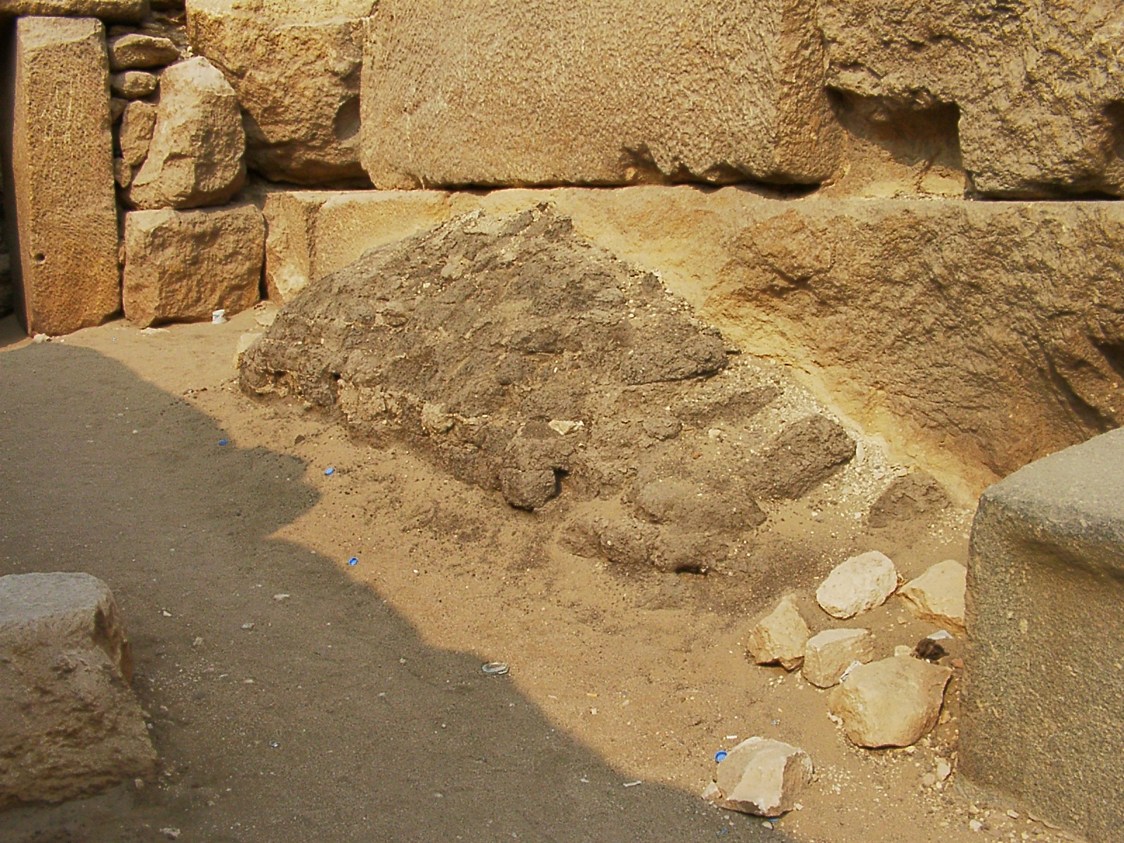 Mudbrick casing in Menkaura's mortuary temple